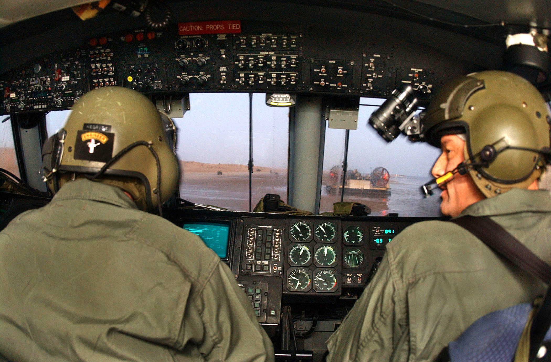 Operation Enduring Freedom (Dec. 1, 2001) -- Chief Damage Controlman Jeff Tinch (right), Craftmaster aboard a U.S. Navy Landing Craft Air-Cushion (LCAC), coordinates controls with his engineer, Gas Turbine Systems Specialist 1st Class Steve Hedrick, as they prepare to off-load U.S. Marines from the 26th Marine Expeditionary Unit (MEU) stationed aboard USS Bataan (LHD 5). The Bataan Amphibious Ready Group (ARG) is deployed in support of Operation Enduring Freedom. U.S. Navy photo by Chief Photographer's Mate Johnny Bivera. (RELEASED)